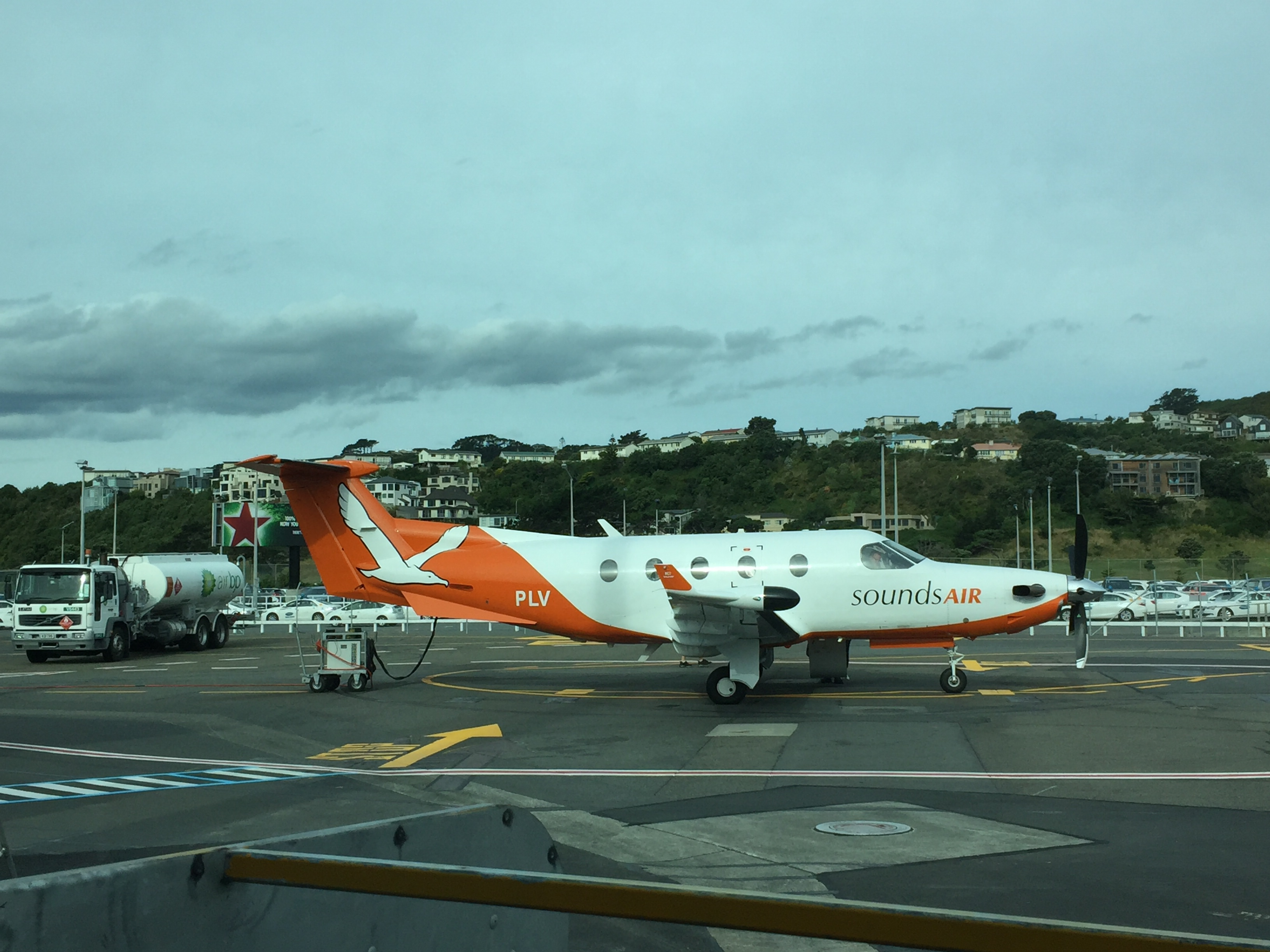 Off to Taupo is this sleek Pilatus.